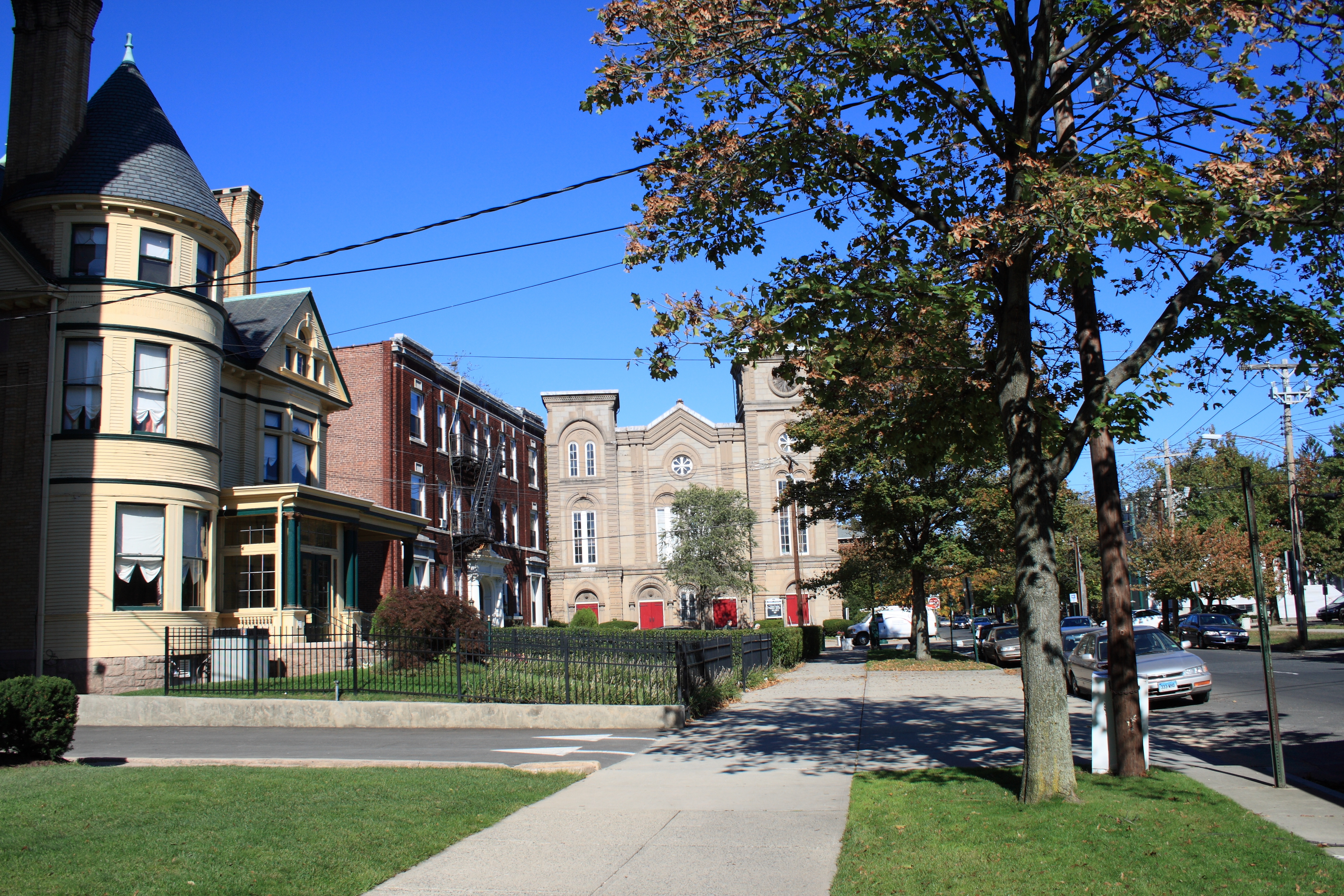 Dwight Street, just south of Chapel St. facing north, in the Dwight Street Historic District, a Registered Historic Place in New Haven, Connecticut. - OpenStreetMap(Info)